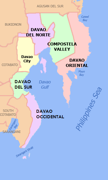 Political Map of Davao Region, Philippines. Showing Compostela Valley, Davao del Norte, Davao del Sur, Davao Occidental, Davao Oriental and . Used the map template :Image:BlankMap-Philippines.png by User:TheCoffee.